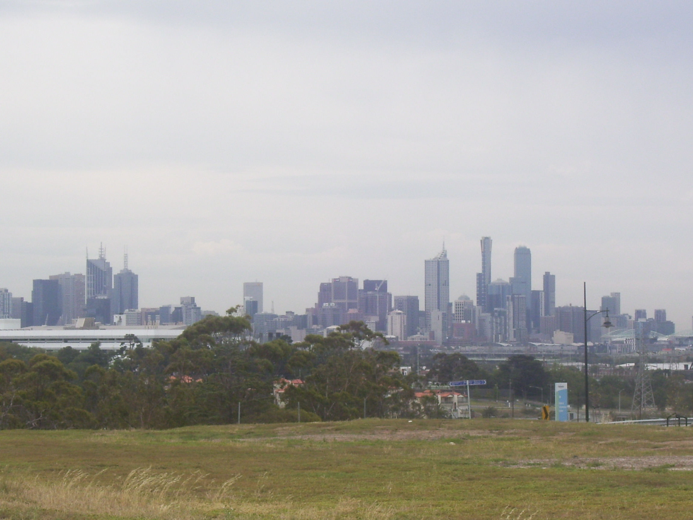 Maribyrnong, City Skyline